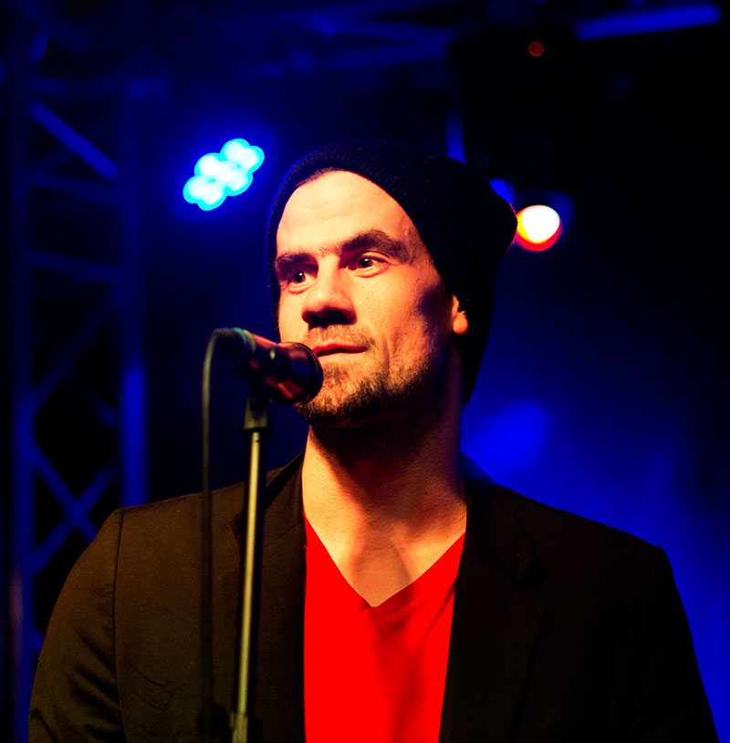 Jee Kast in Beringen on Re:concerse festival (photo: Martien Neijens)